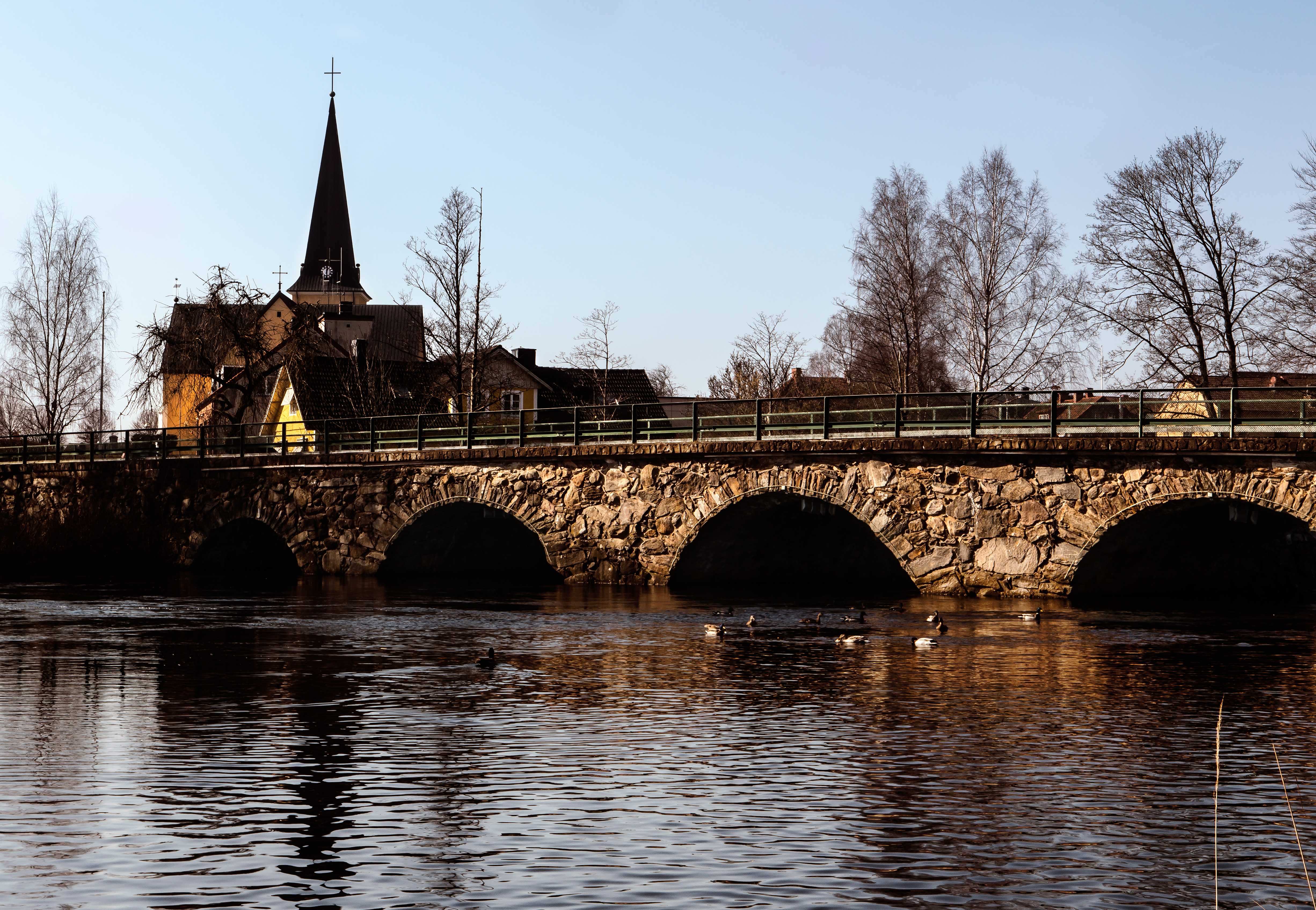 Bridge in Broby, Sweden.